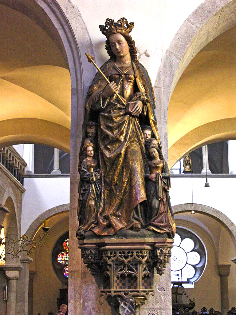 original by Hans Peter Schaefer / modified by Maris stella